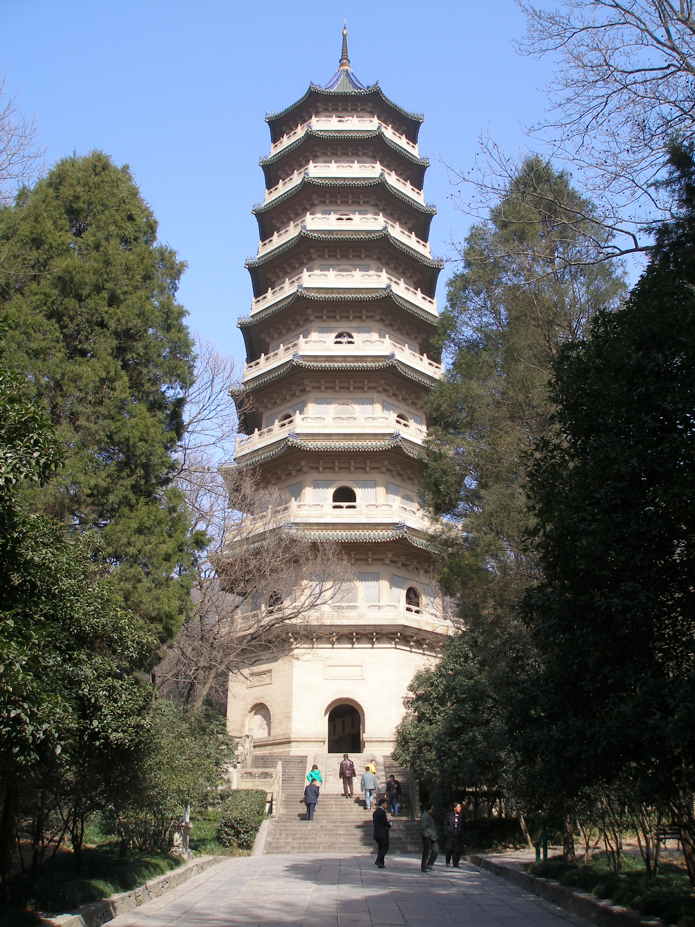 Linggu Temple in Nanjing, memory hall for NRA